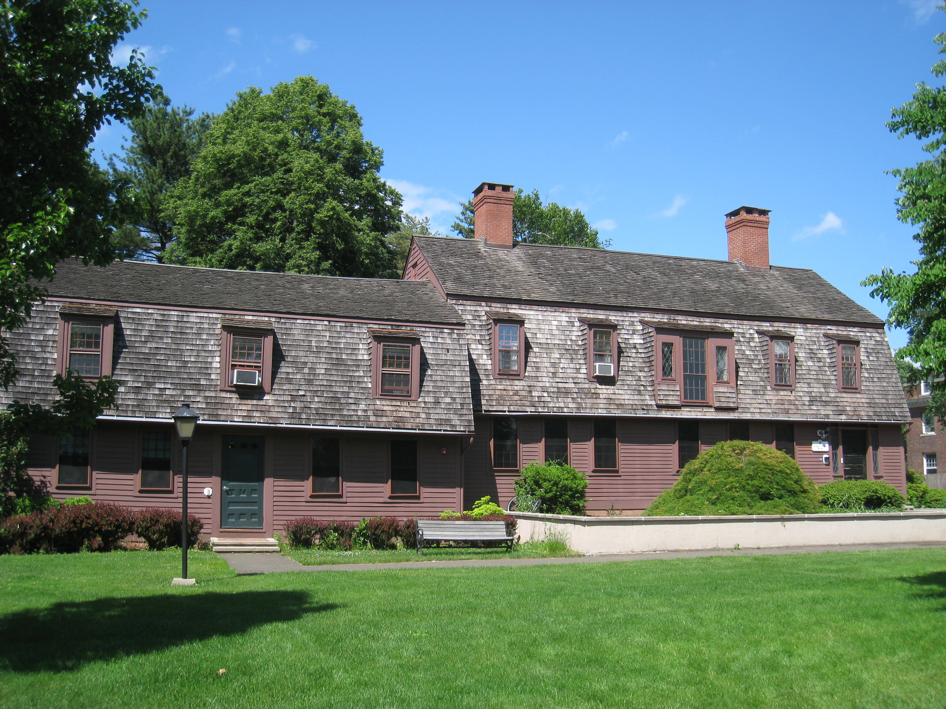 Squire Stanley House - Choate Rosemary Hall, Wallingford, Connecticut, USA. West wing built in the 1690s; east wing added circa 1770.